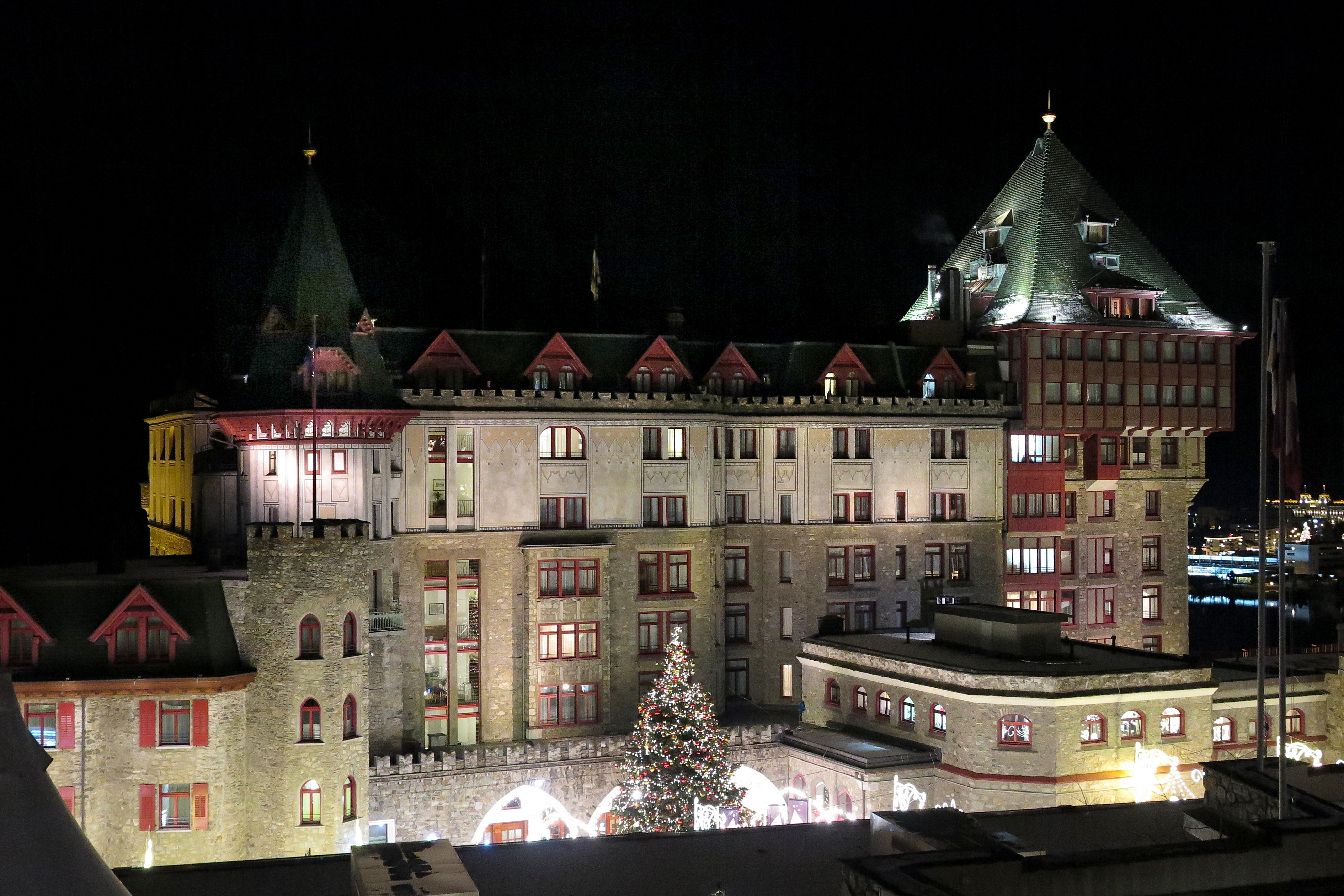 In 118 years, this hotel became such as a landmark for St. Moritz. For a suite, you can spend up to CHF 25,000 per night. The annual turnover amounts to 50 million swiss francs. Seen from the Via Veglia. Switzerland, Dec 19, 2014. (6/9)